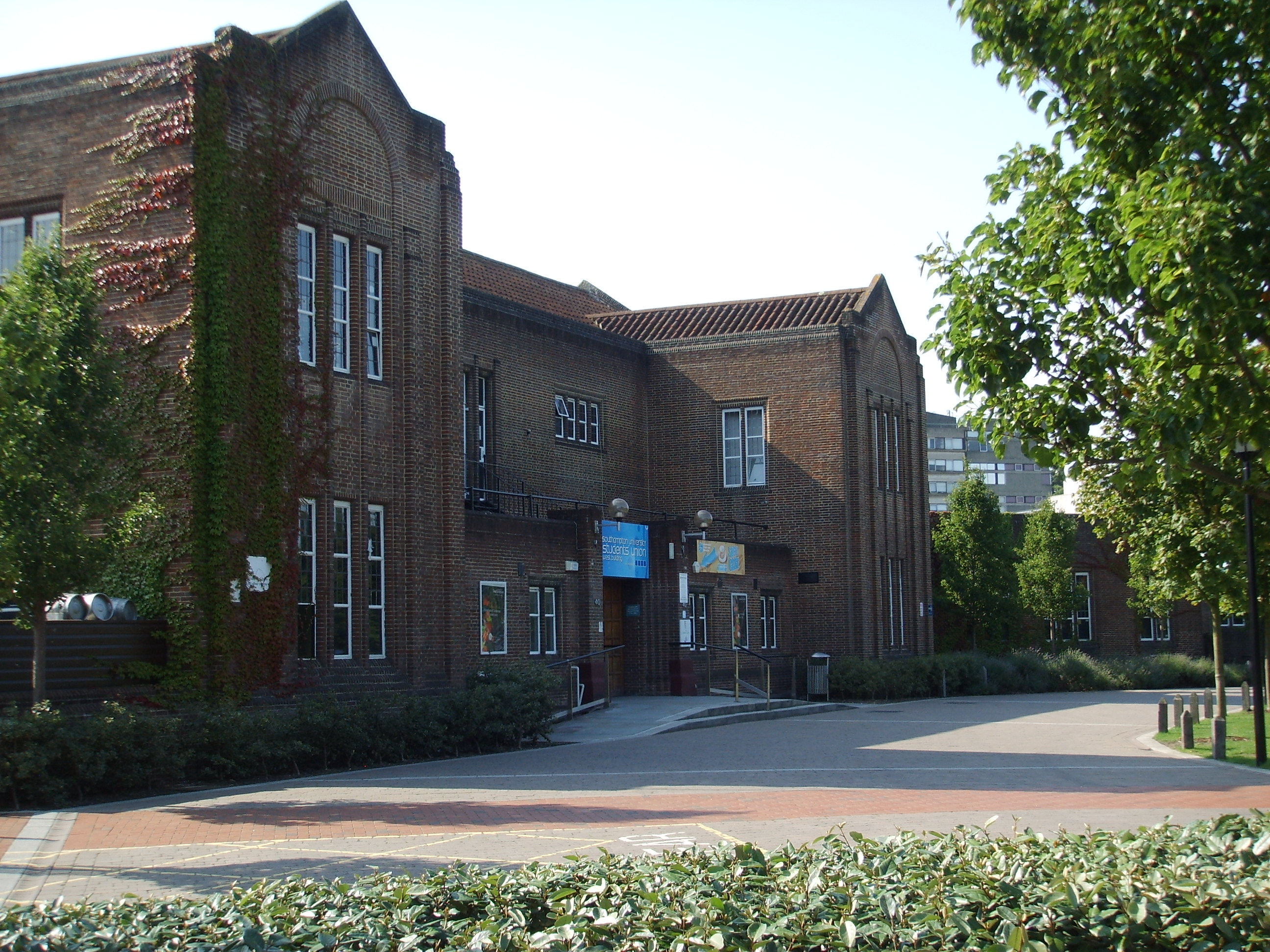 Front of the West Building, University of Southampton